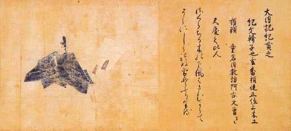 Ki no Tsurayuki, from the Satake Family sanjurokkasen, Kosanji, Onomichi, Hiroshima, Japan